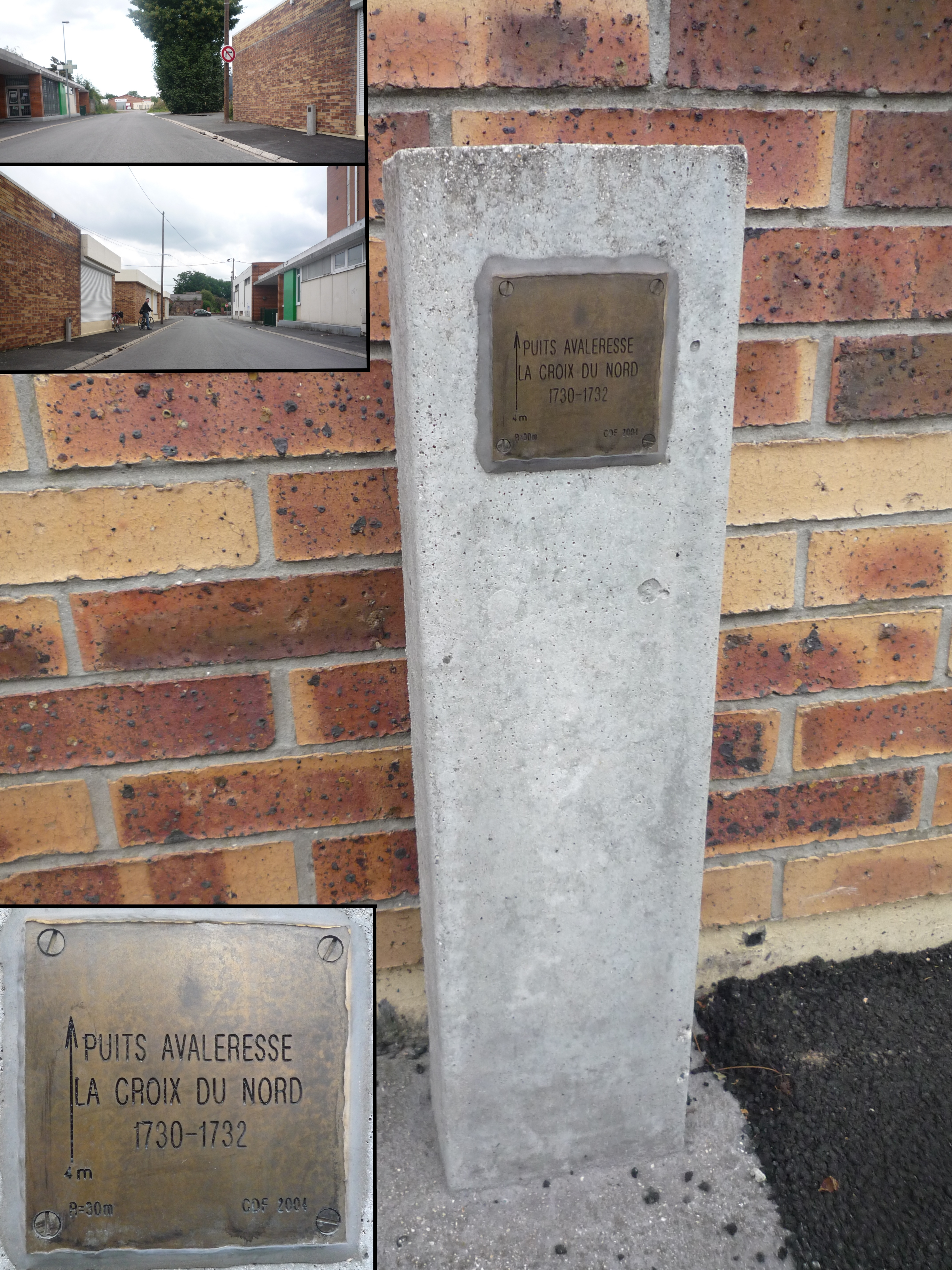 Pit Avaleresse La Croix du Nord at Anzin, France.